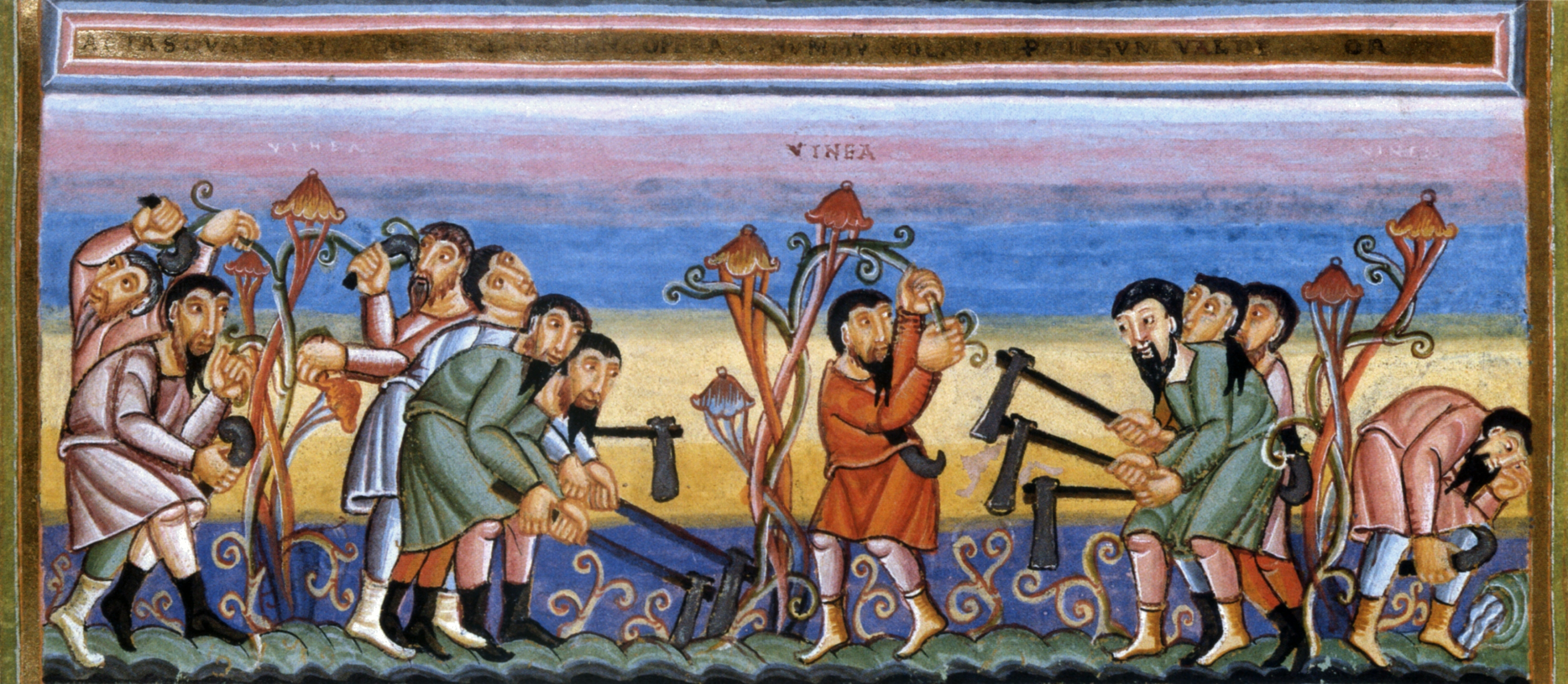 Parable of the Workers in the Vineyard, Codex aureus Epternacensis, fol. 76f, detail